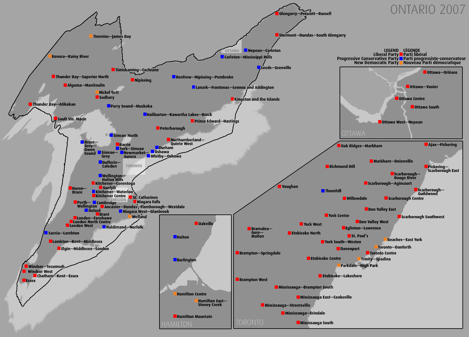 Riding-by-riding map of the Ontario general election, 2007. Cartographie des résultats des élections ontariennes 2007 par circonscription.